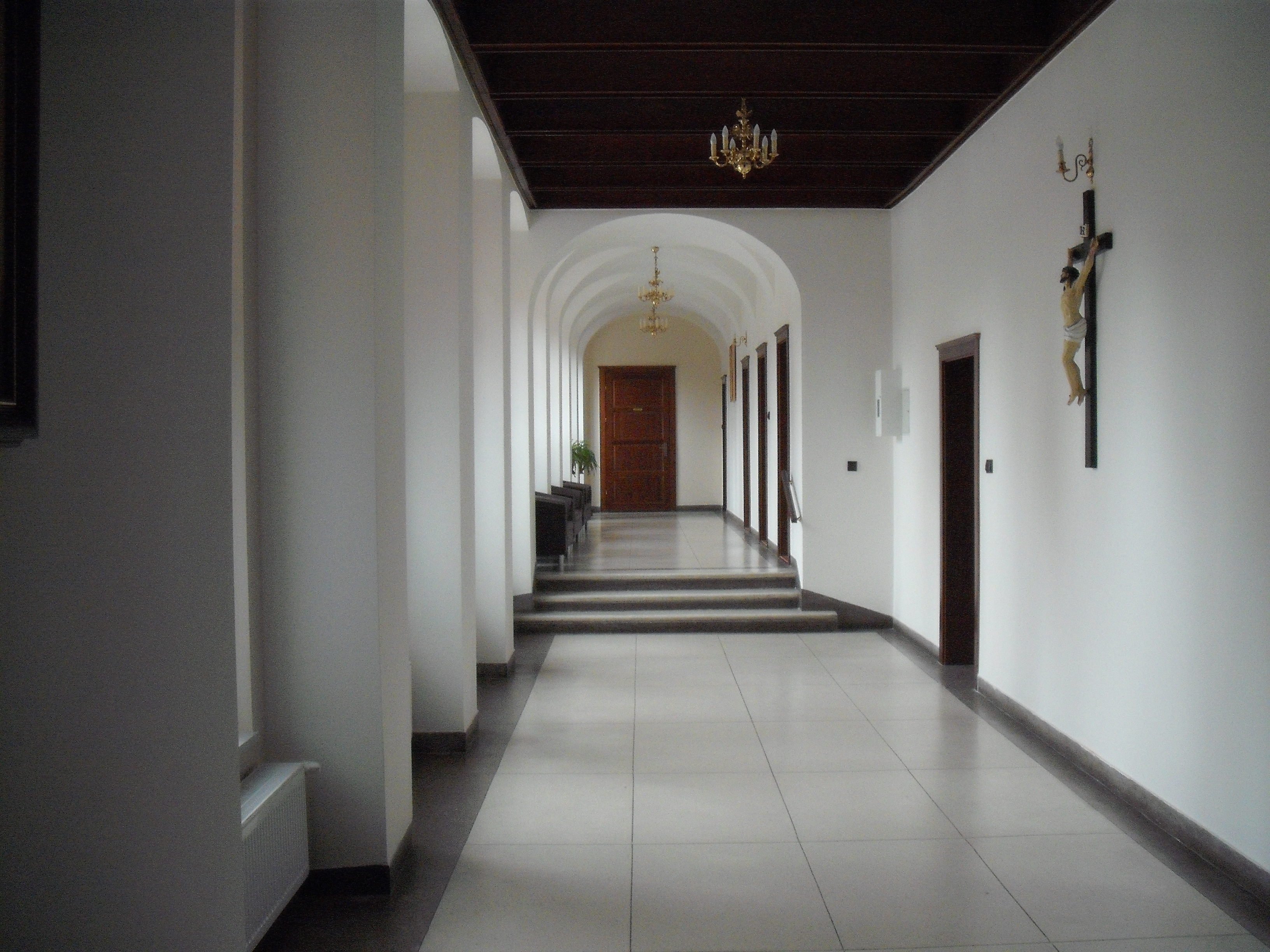 St. Anthony monastery Gdynia, interior